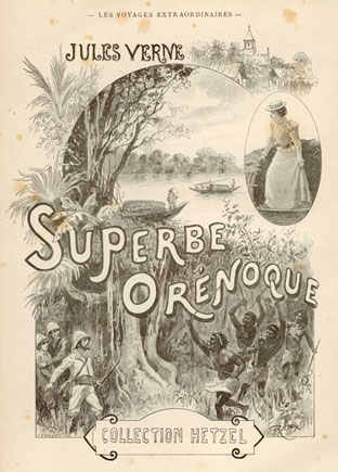 Ilustration from George Roux for French edition of book J. Verne "The Mighty Orinoco".